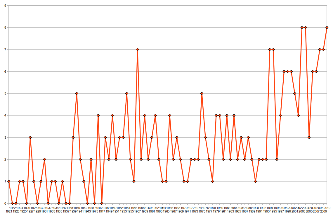 Number of films in Top-250 IMDB by years (as on March 1st, 2011).